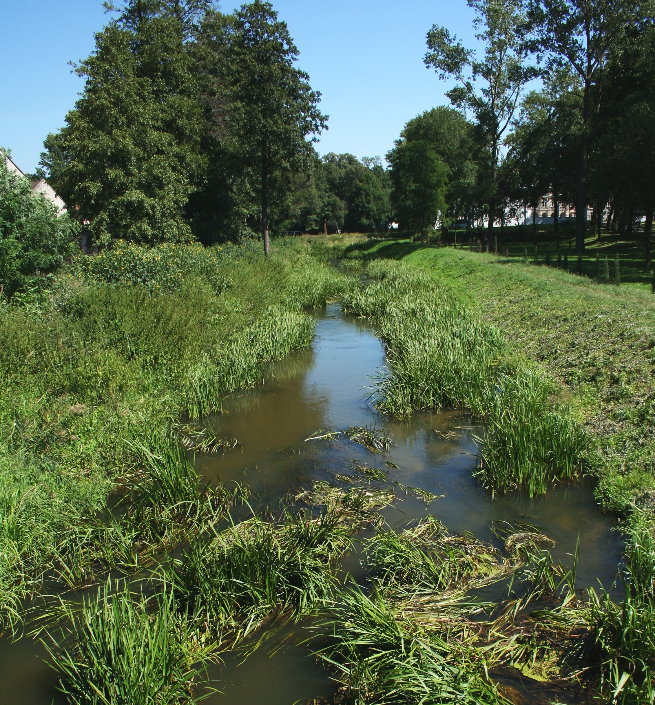 Pilica river in Szczekociny, Poland